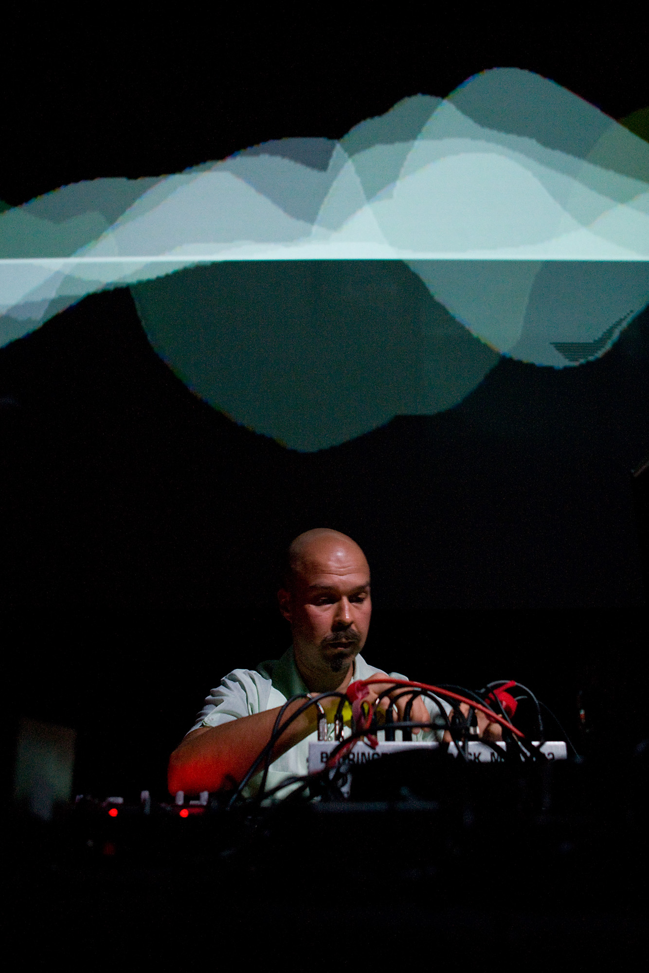 Mika Vainio (Pan Sonic) photos by Randy Yau